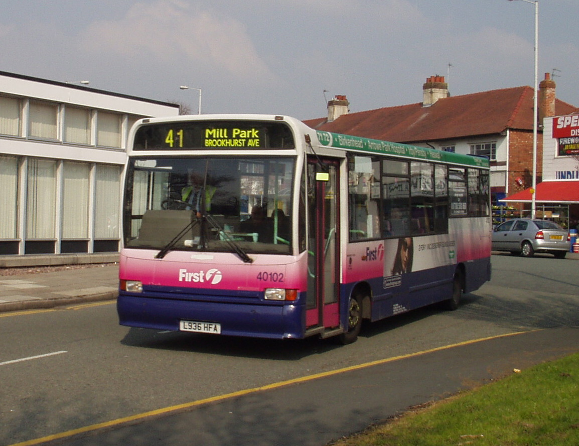 Dennis Dart single-decker bus with Marshall C37 bodywork L936 HFA in Bromborough, Wirral, England operated by First Chester and the Wirral.